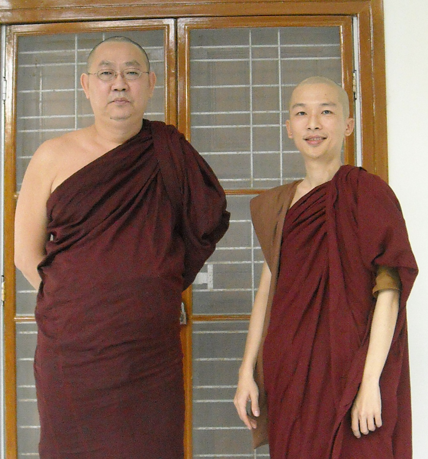 Sayadaw U Tejaniya and Kumara Bhikkhu standing in front of the Dhamma Library at the Shwe Oo Min Meditation Center, Yangon, Myanmar 2011